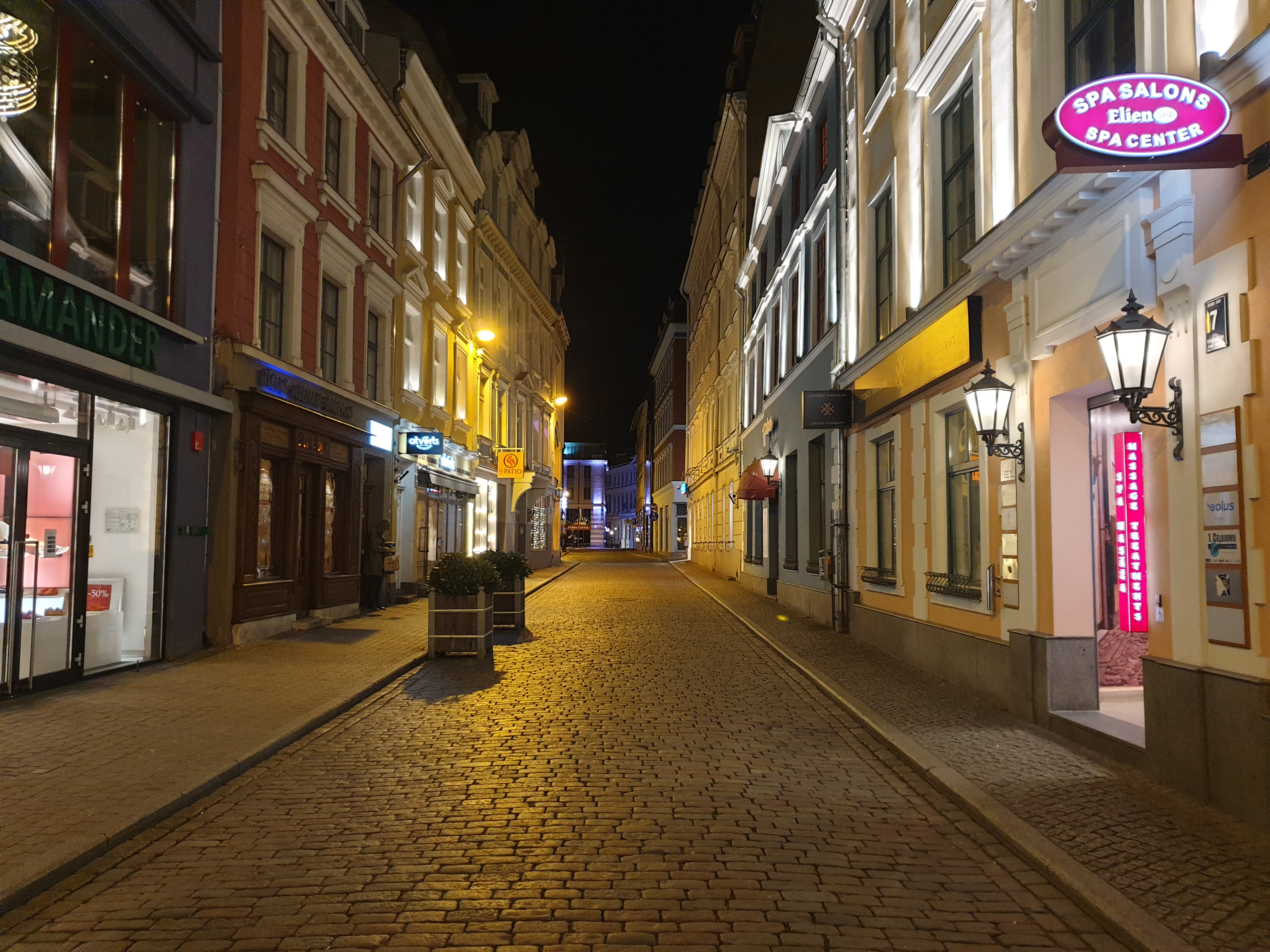 Empty streets of Old Riga on March 22 2020 during the 2019–20 coronavirus pandemic